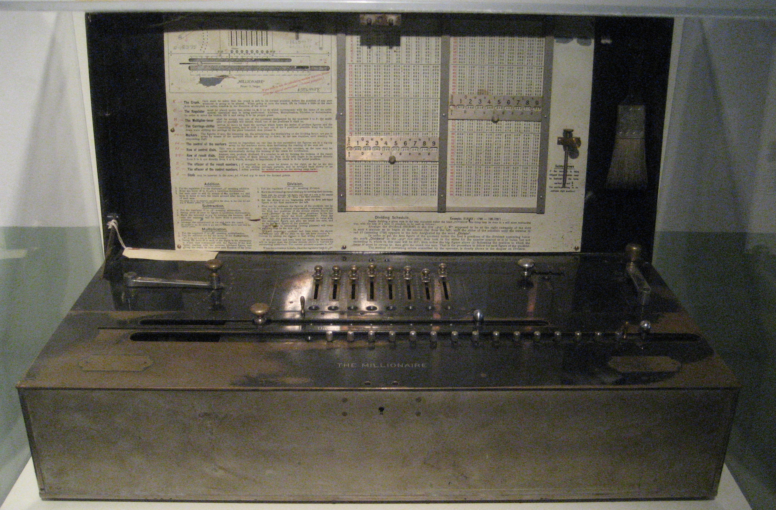 Old New Orleans Mint, now a museum. Top of the line late 19th century mechanical calculator, "The Millionaire".